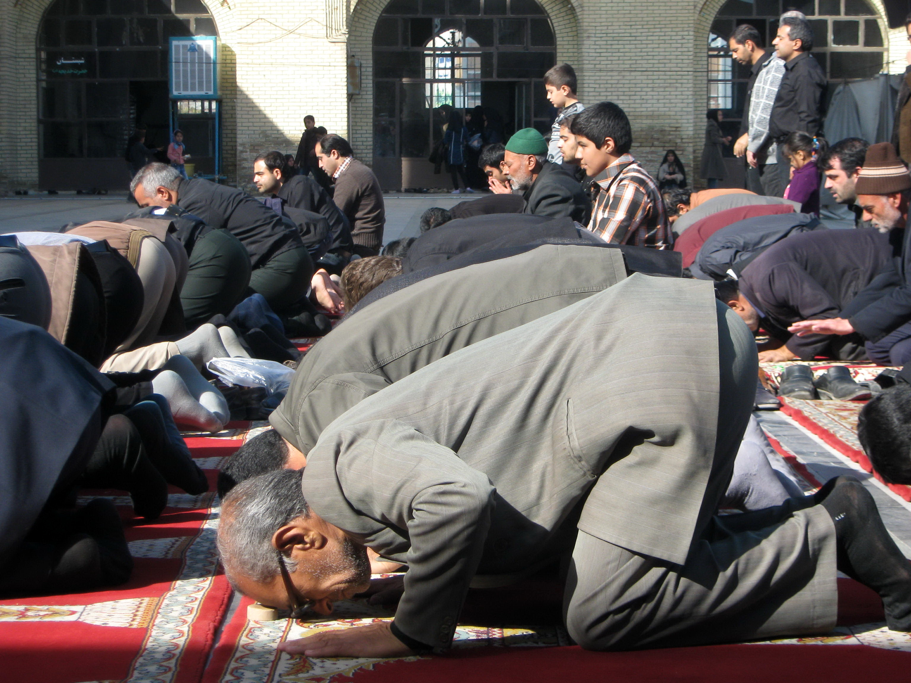 November13,2013 - Muharram 9,1435 - Grand Mosque of Nishapur